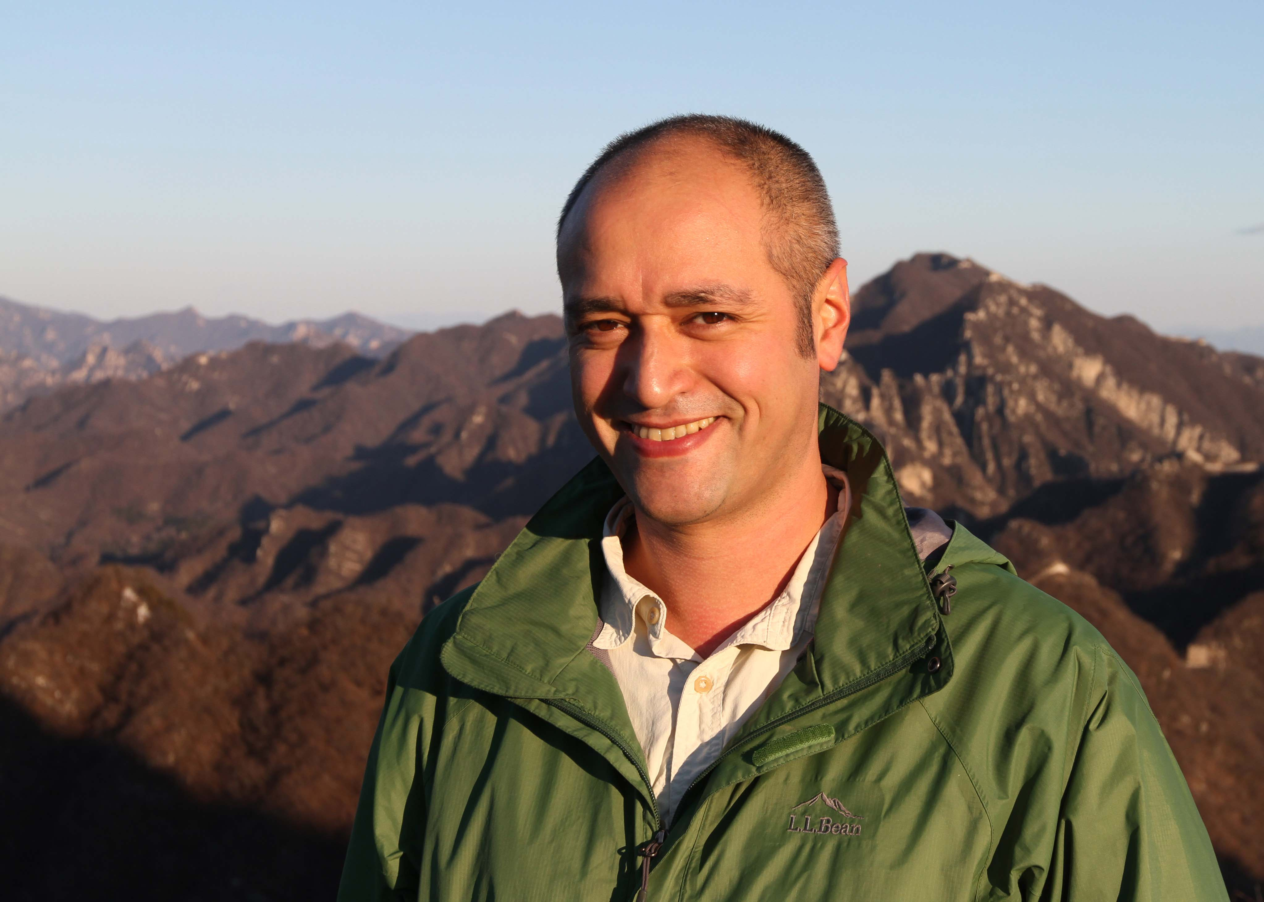 Ola Wong